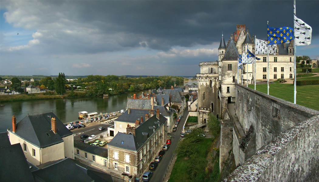 The Château overlooking the town of Amboise, Indre-et-Loire, Centre, France.